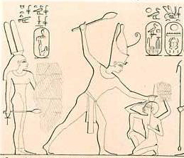 Queen Iaret and Pharaoh Thutmosis IV